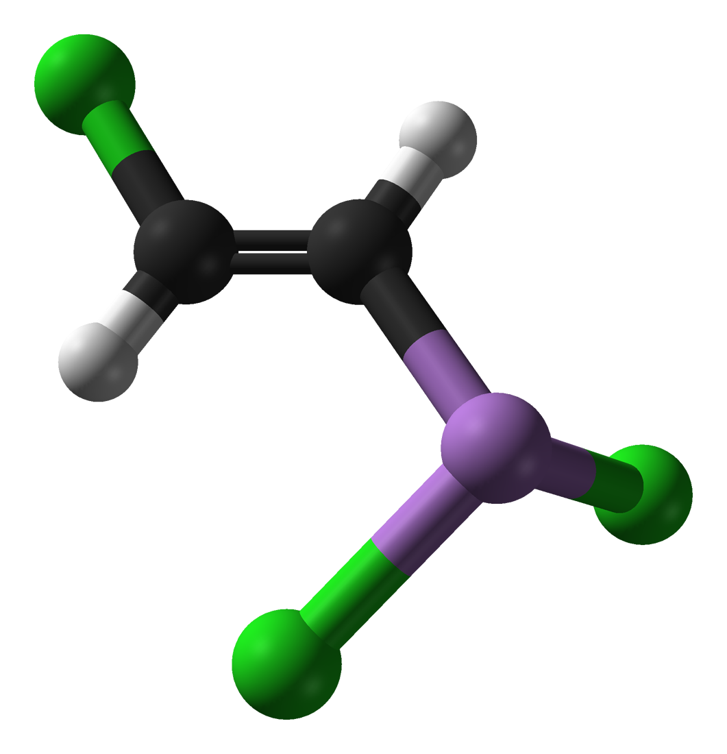 Ball-and-stick model of the lewisite molecule, C2H2AsCl3. Structure calculated with MP2 using the 6-31G* basis set in Spartan Student Edition version 4.1. Hydrogen Carbon Arsenic Chlorine